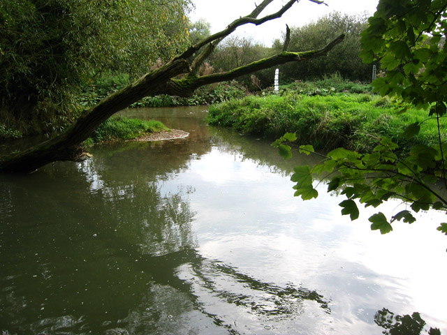 River Eye, Coston Leicestershire. The River Eye widens out for the ford on Sproxton Lane. The water level marker post has a top depth of 6 feet. The photograph was taken from the footbridge which takes the public footpath over the river.